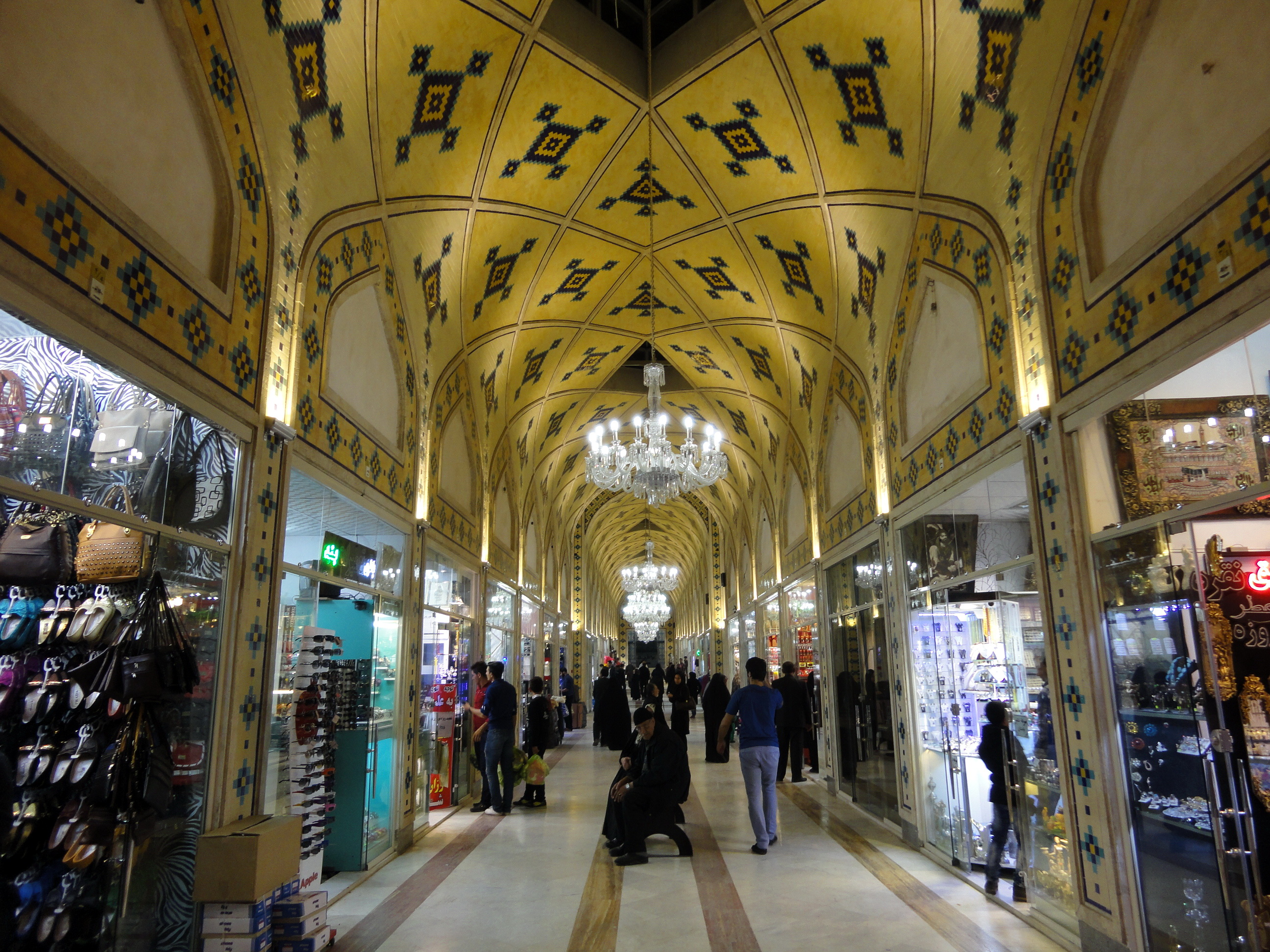 Hedayat Little Bazaar- Near Holy shrine of Imam Reza - Mashhad